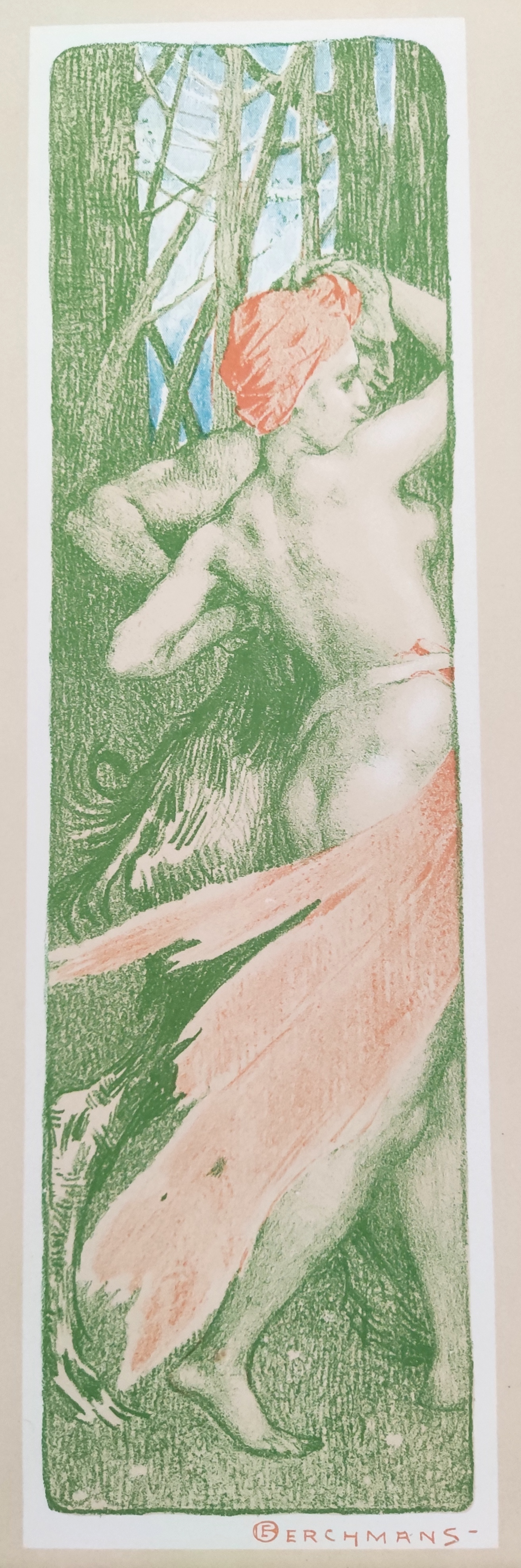 Renouveau by Emile Berchmans, lithographic print from L'Estampe moderne, vol. I, Paris, F. Champenois.